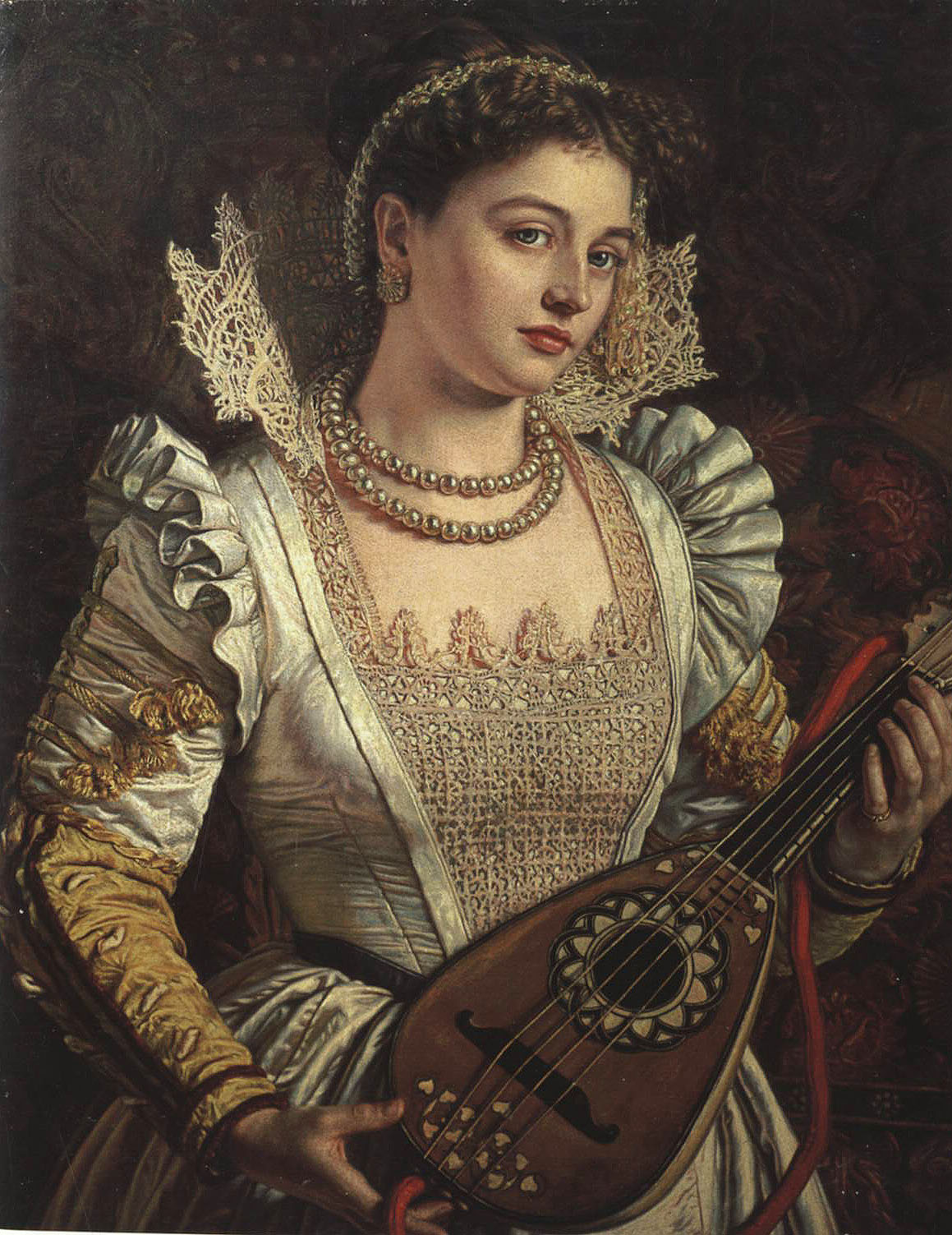 Bianca (1868-69). Oil on canvas. Worthing Museum and Art Gallery, UK. The model for Bianca was an American girl named Miss Lydiard: ‘a very beautiful fair American girl’ according to Hunt. Depicts Bianca, a character from Shakespeare’s Othello. She is Cassio’s jealous lover. Bianca plays a significant role in the progress of Iago’s scheme to incite Othello’s jealousy of Cassio. Traditionally regarded as a courtesan, Bianca was occasionally cut from performances in the 19th century on moral grounds.